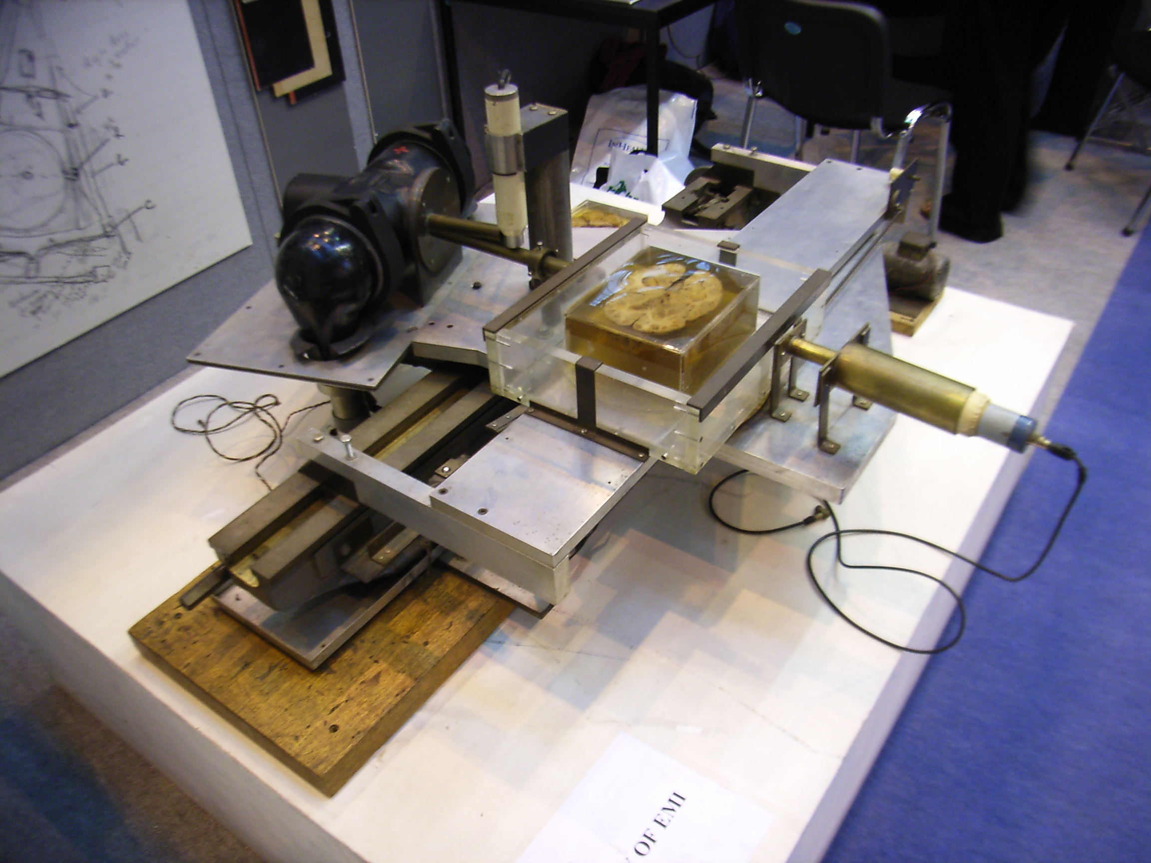 The very first ct scanner prototype. Invented by Hounsfield at EMI. This picture was taken at the UKRC 2005 exhibition in Manchester G-MEX centre. Philipcosson 08:42, 20 July 2006 (UTC) Image uploaded from the English Wikipedia. See here